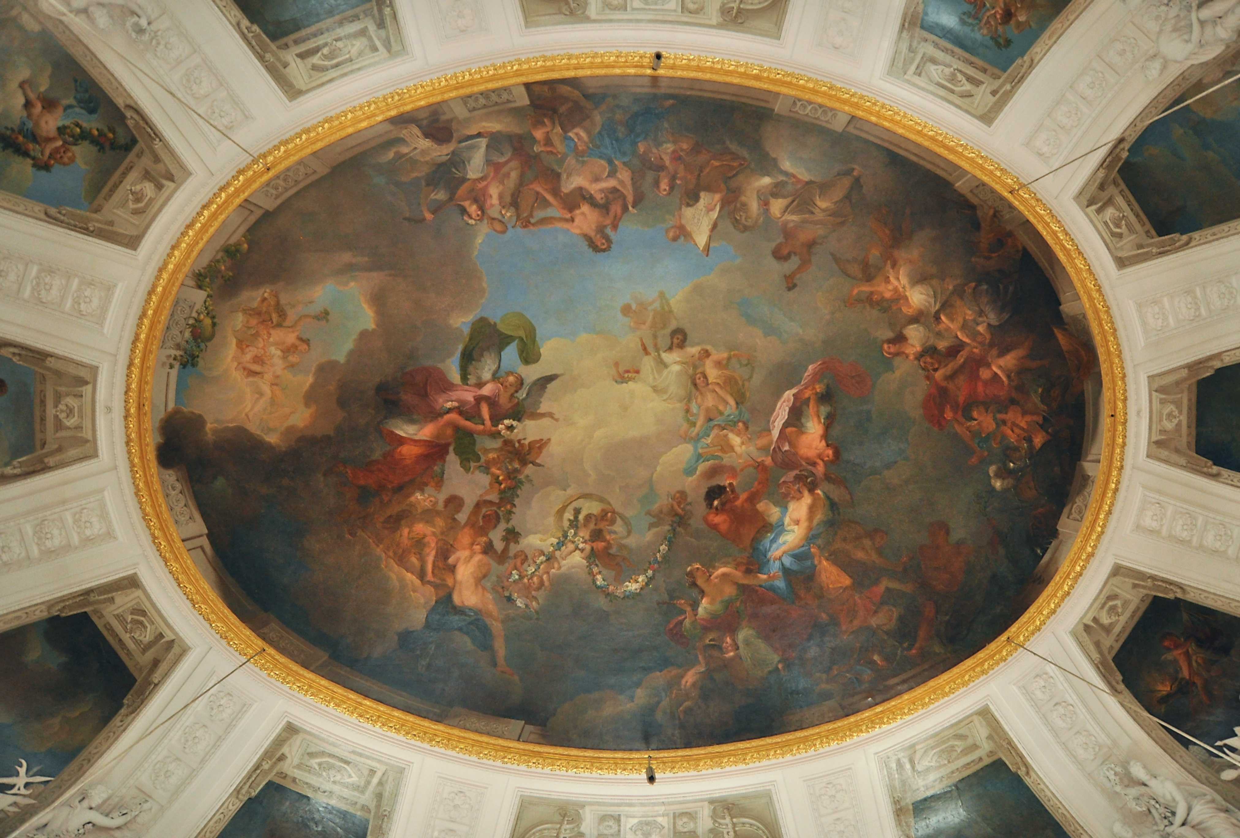 Ceiling painting by Nicolas Guibal in the main hall of Castle Solitude, 1766